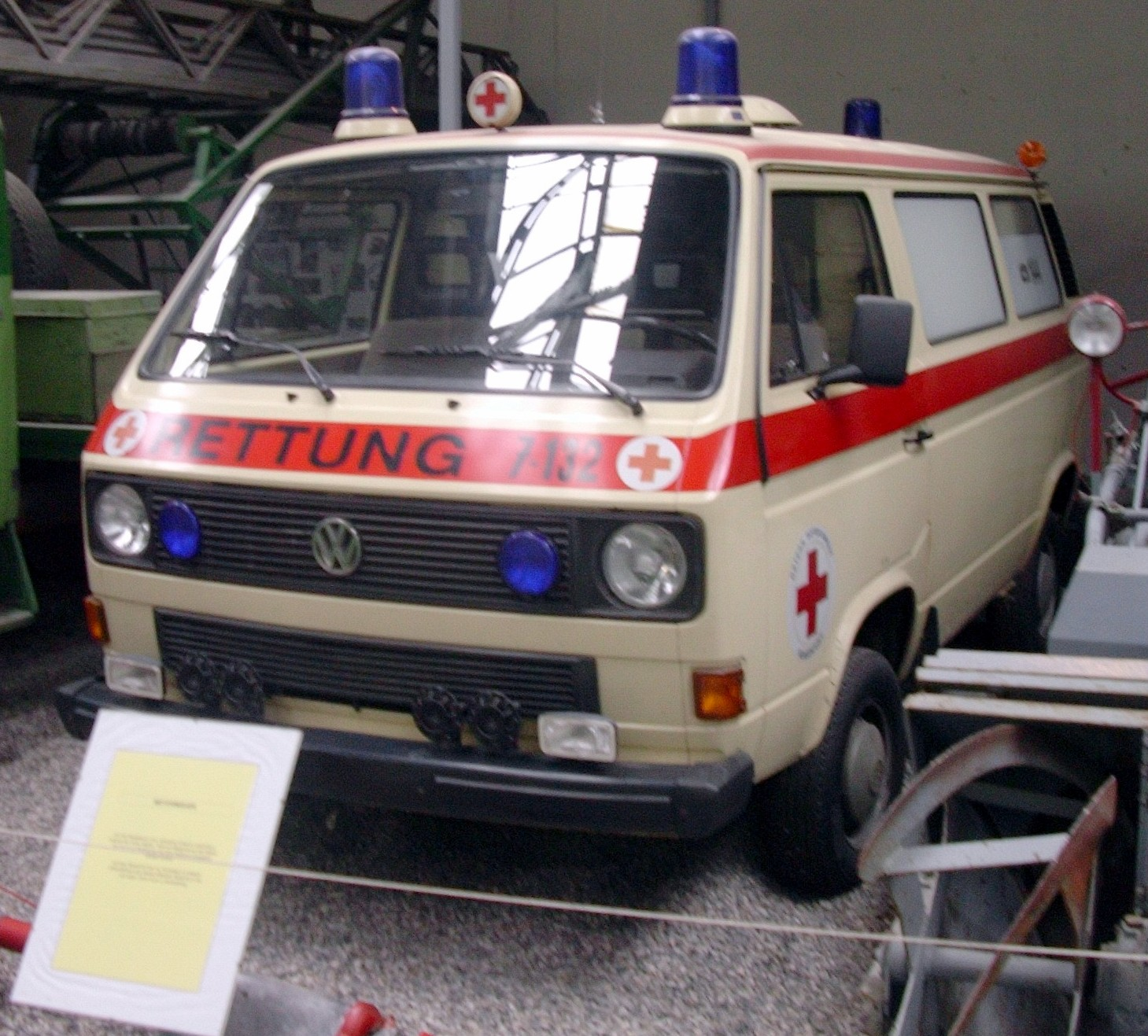 VW T3 Ambulance 7.132 of the Austrian Red Cross